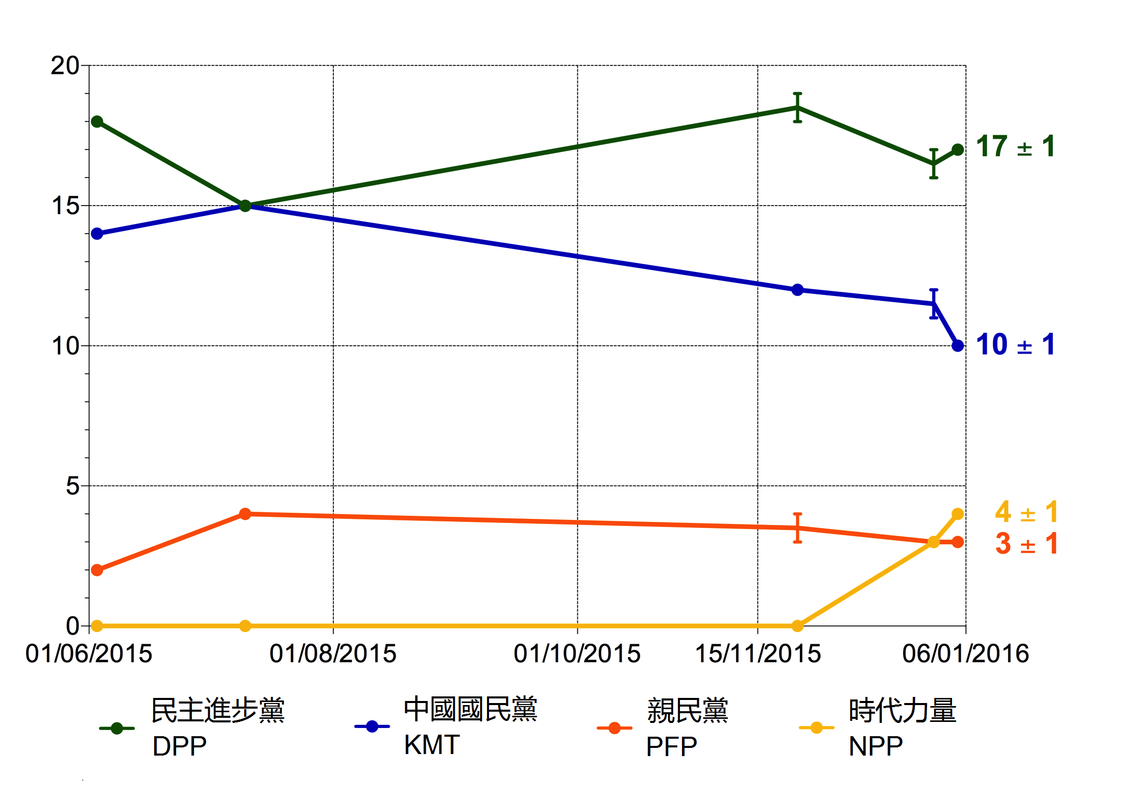 Projections for the legislator-at-large elections for the 2016 Taiwan legislative elections